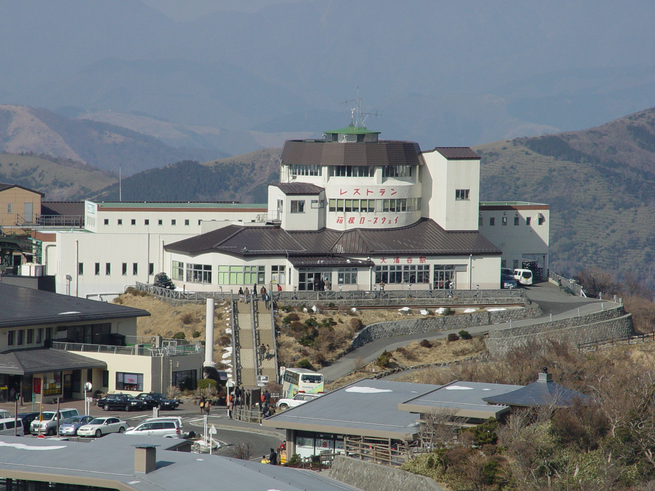 Owakudani Station, Hakone Ropeway